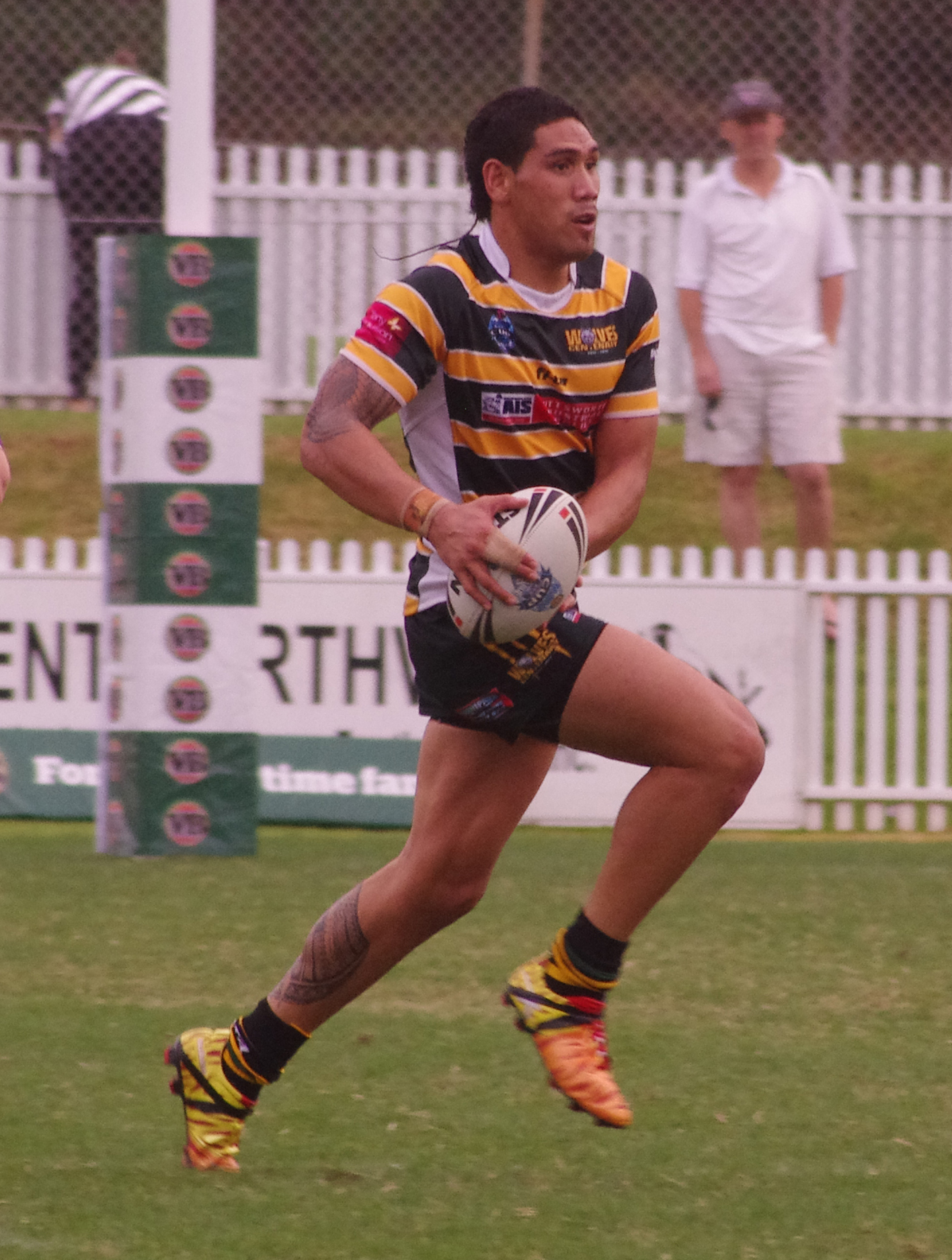 Jesse Sene-Lefao